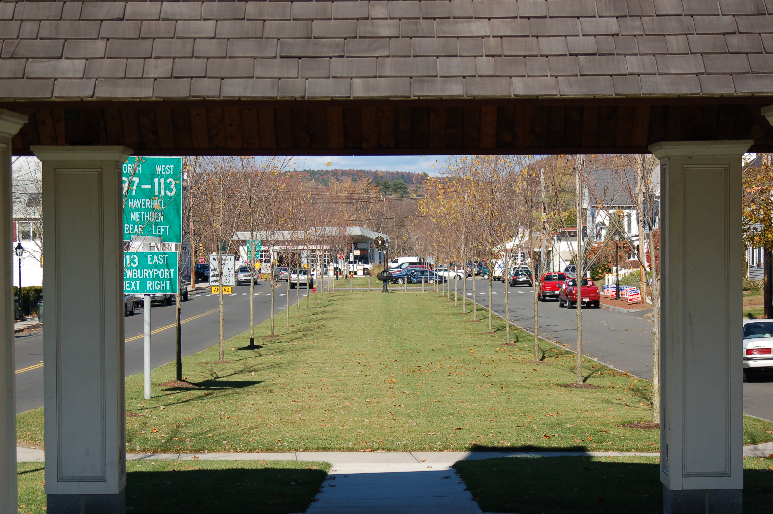 Downtown Groveland, MAssachusetts. Photo taken by Author, Richard B. Johnson.